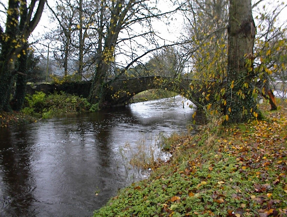 Taken by John Fitzsimons